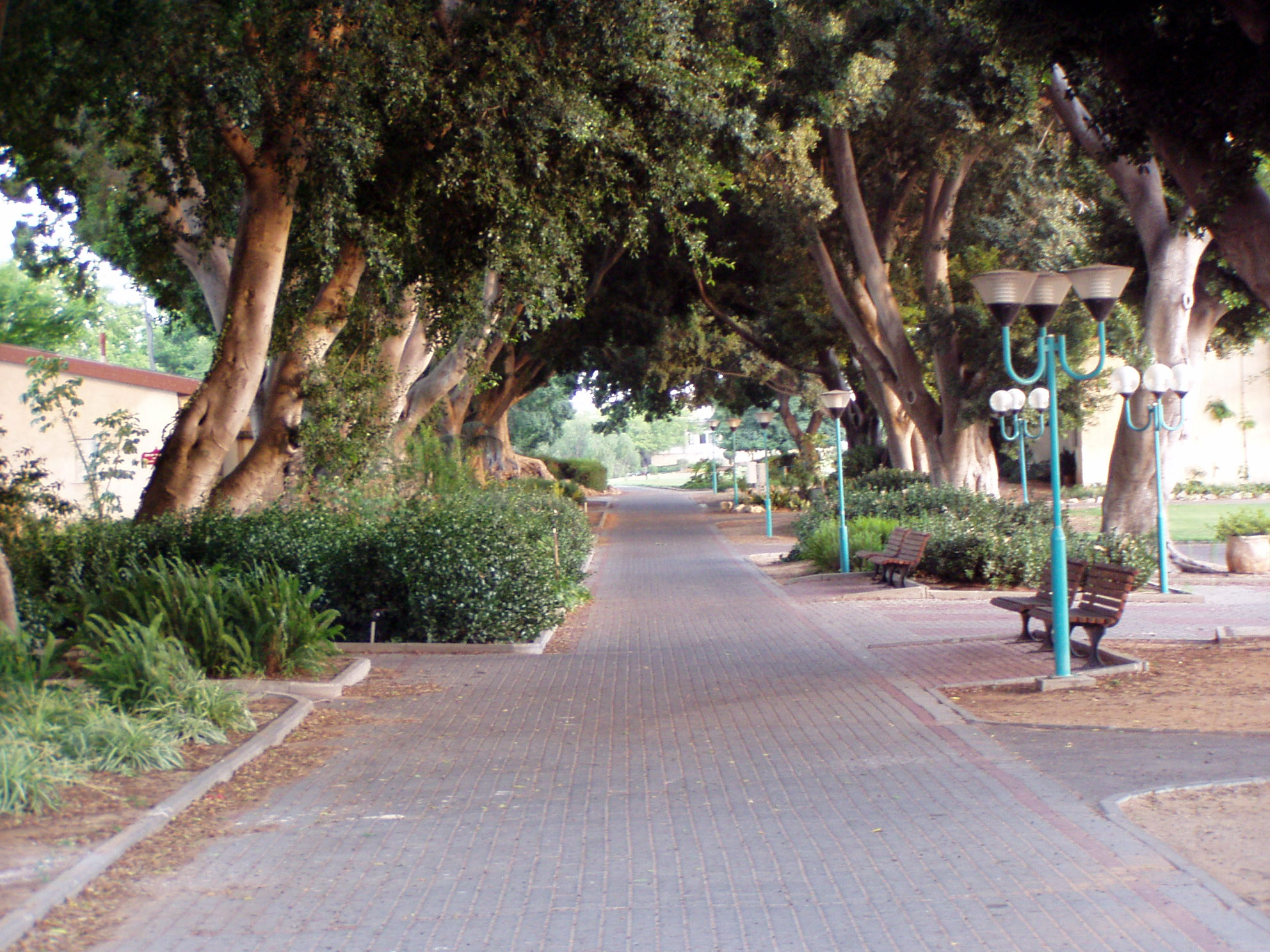 Settlements in Israel